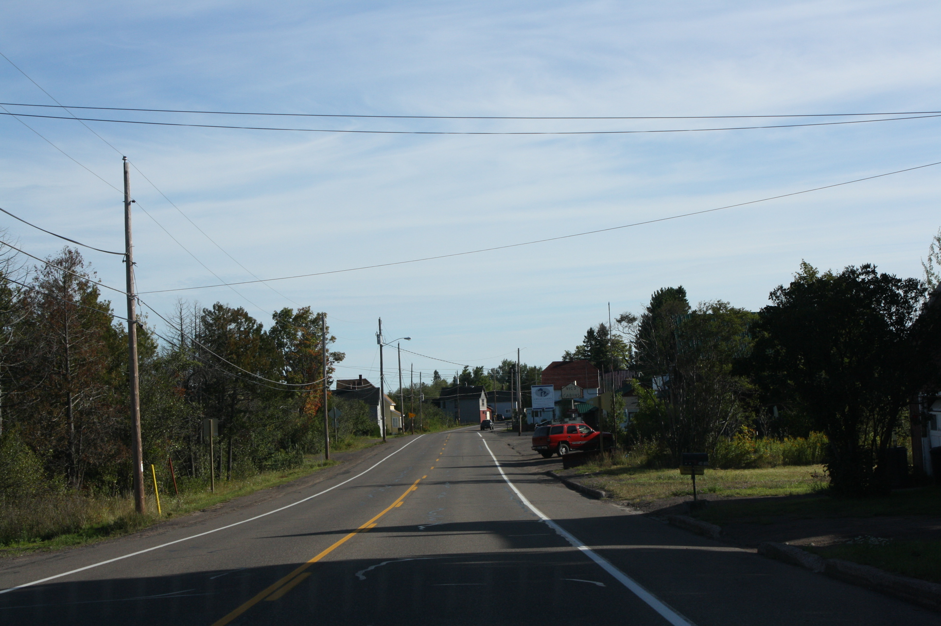 Looking at downtown Kearsarge, Michigan on U.S. Route 41.